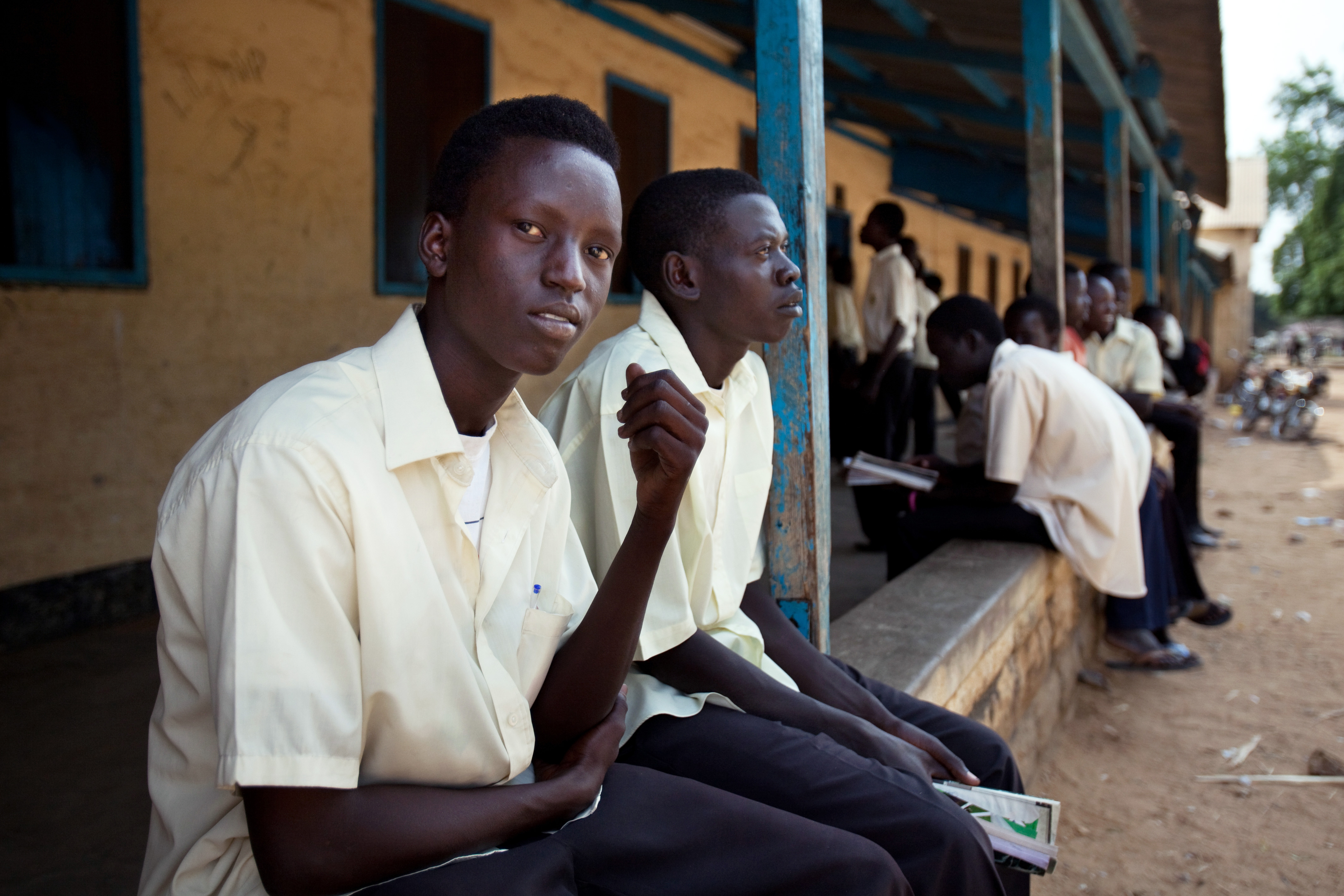 (2011 Education for All Global Monitoring Report) -Secondary school Sudanese students during a break at Supiri Secondary School in Juba, South Sudan. The school is mix boys and girls.